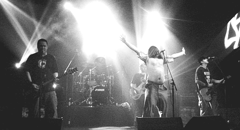 This is a photo of the band Atheist Rap performing live in 2007